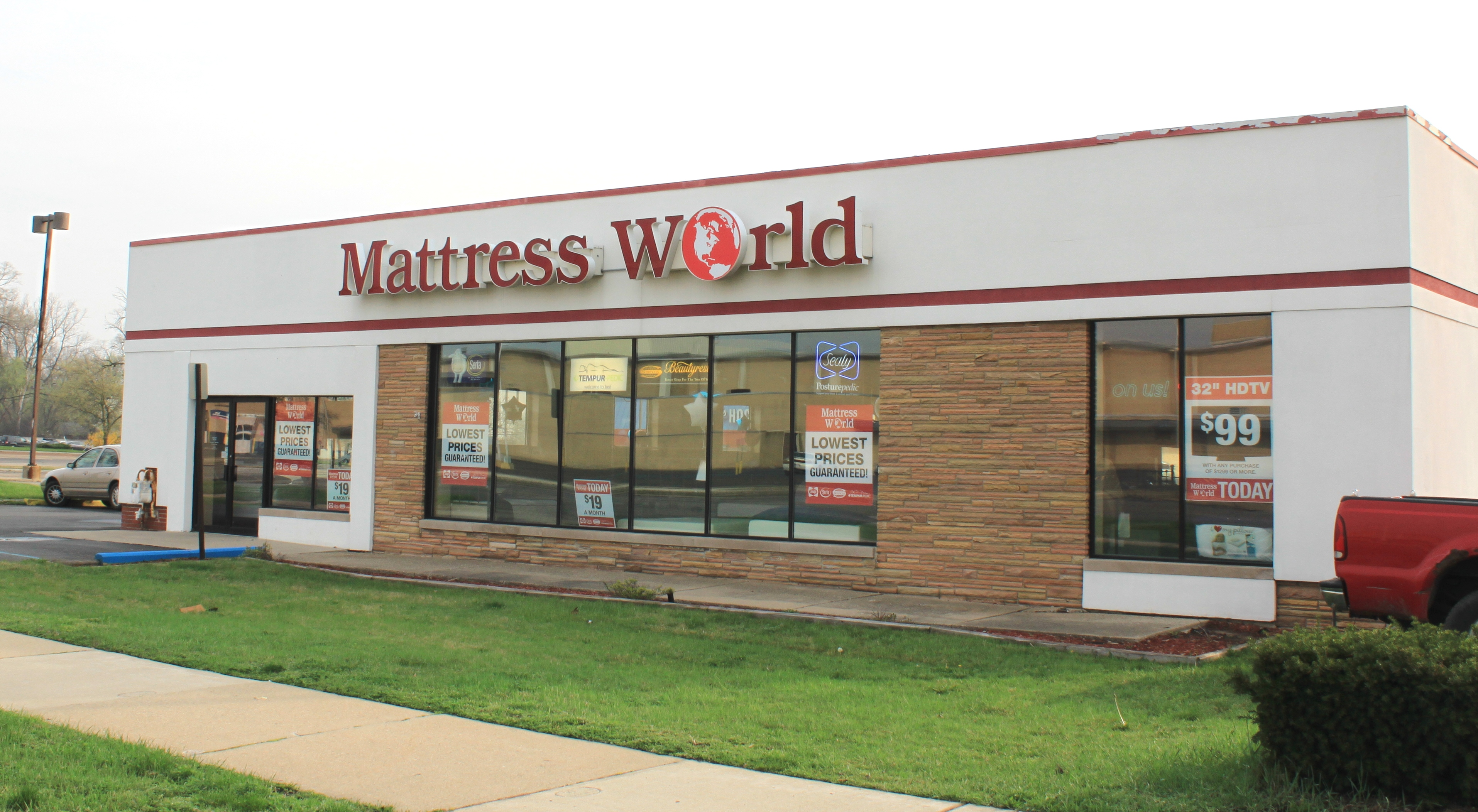 Mattress World store, 19276 Middlebelt Road, Livonia, Michigan.